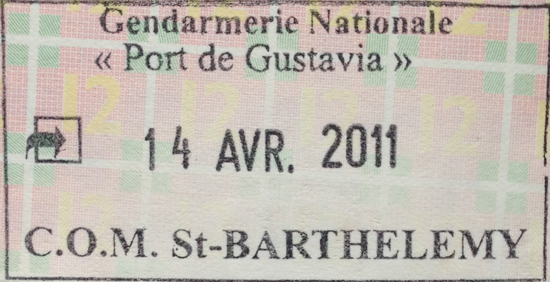 Saint Barthelemy entry passport stamp